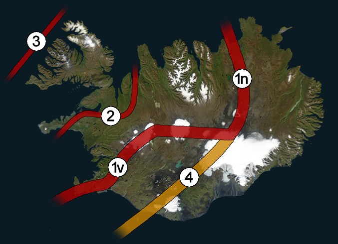 Present and former rift zones of Iceland. 1v: Western Rift Zone (WRZ); 1n: Northern Rift Zone (NRZ); 2: former Snæfellsnes-Skagi Rift Zone (SRZ); 3: former Westfjords Rift Zone (WRZ); 4: Eastern Volcanic Zone (EVZ) - most likely a future rift zone.